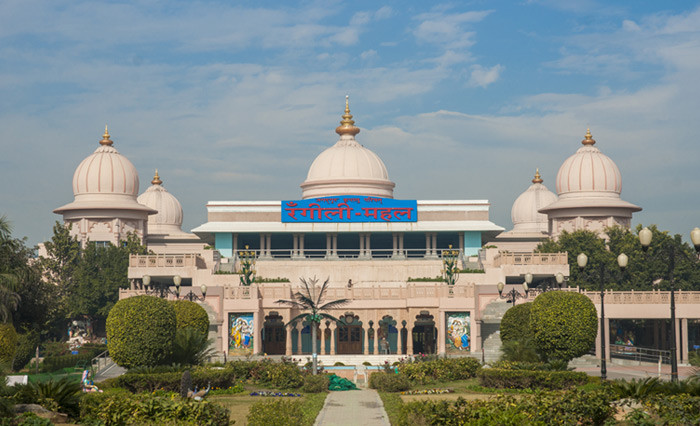 Rangeeli Mahal